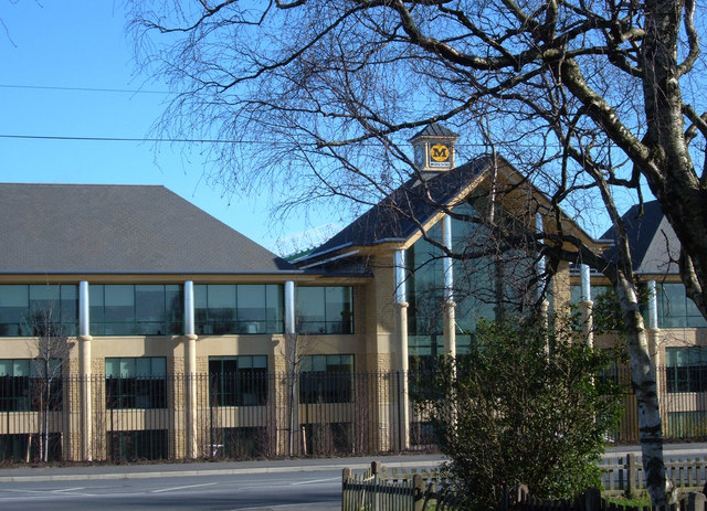 Morrisons HQ, Bradford The administrative headquarters of the national supermarket chain is on Gain Lane, Bradford. Looking northeast from the end of Mortimer Avenue.